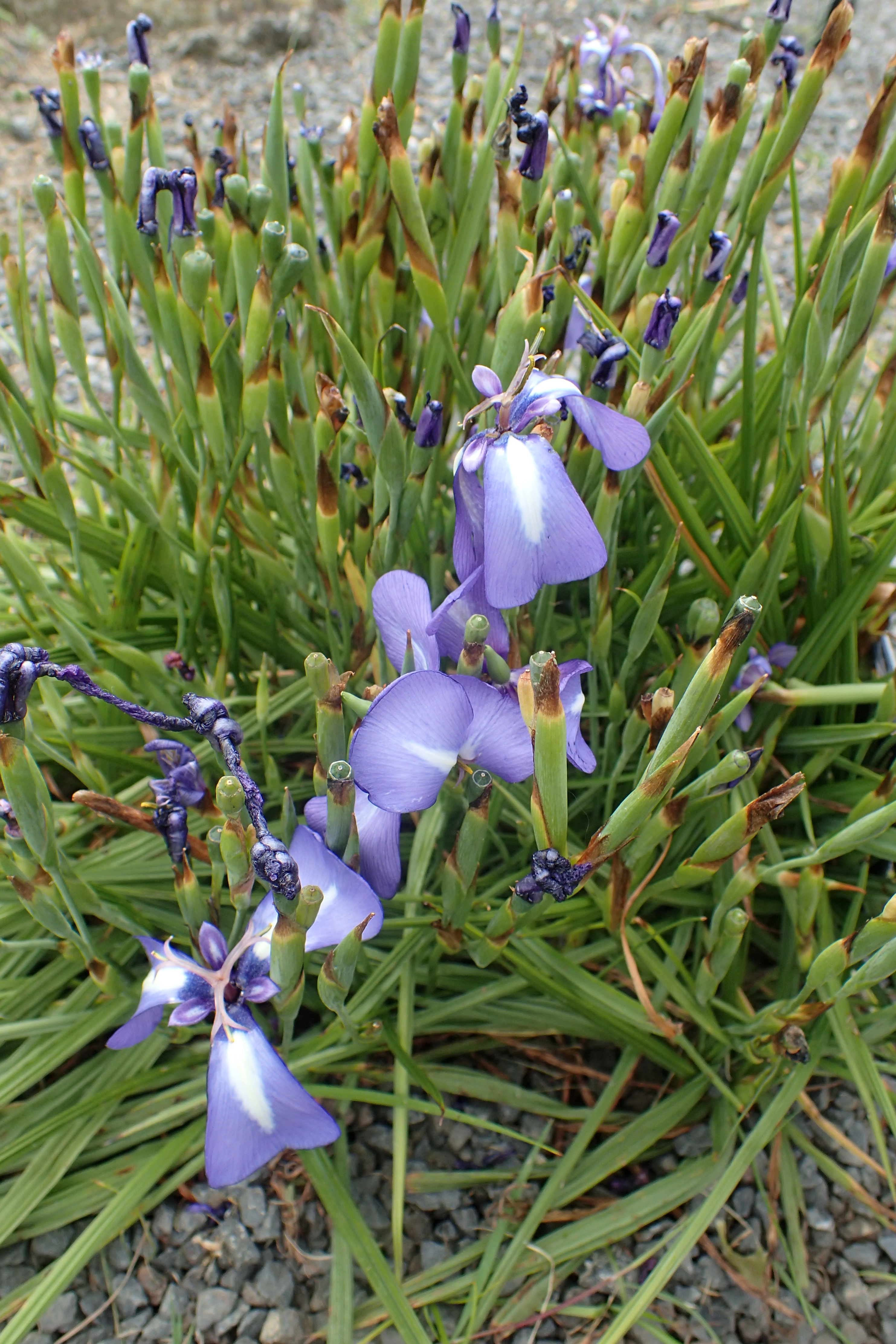 Herbertia pulchella in Auckland Botanic Gardens